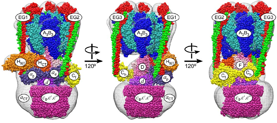 Figure 2 from Parsons & Wilkens, PLoS ONE 2012 : Uploaded for updating